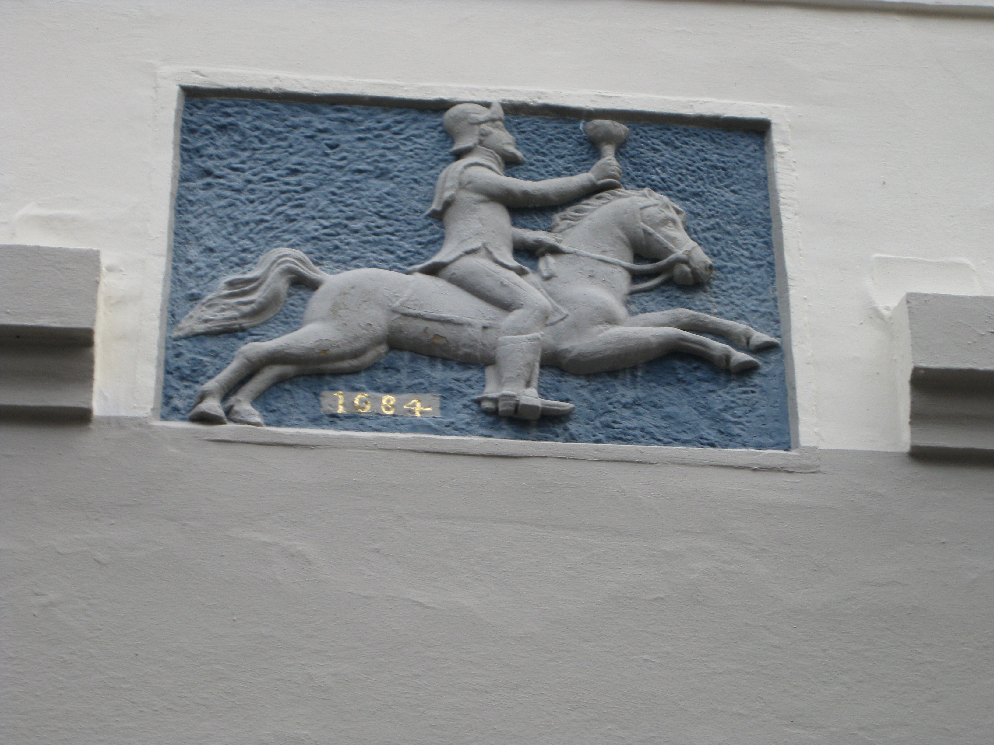 Relief showing a horseman with a wineglass. Königstraße 9 in Lübeck.